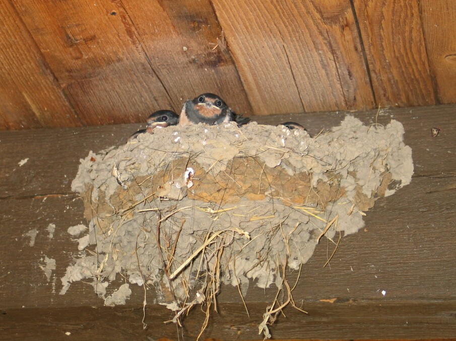 barn swallow's nest